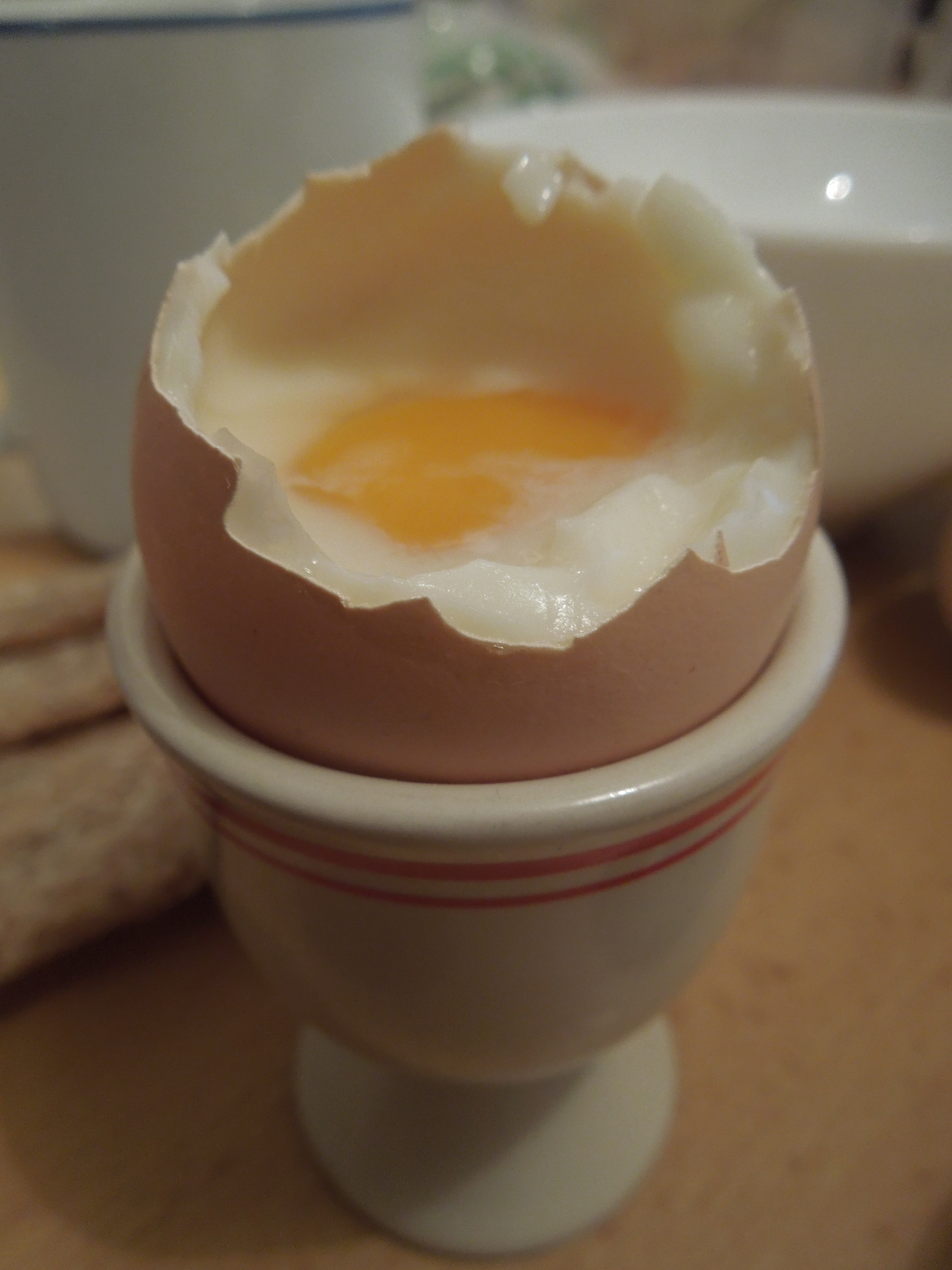 egg for breakfast